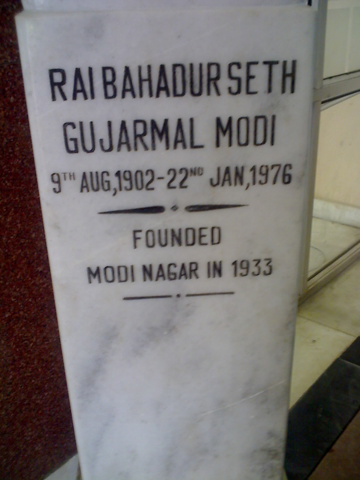 Gujar Mal Modi